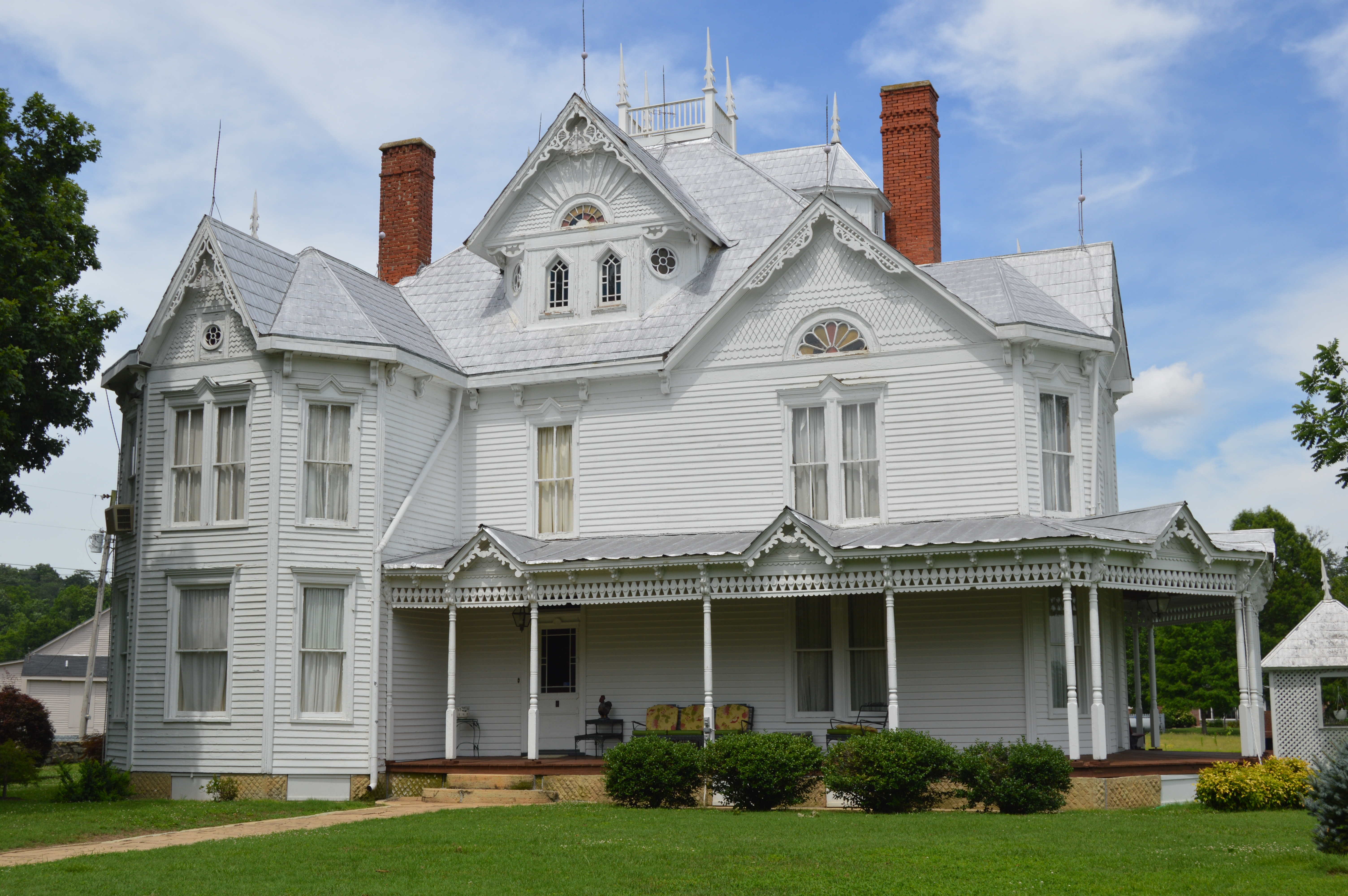 Front of an elaborate house by the intersection of Kentucky Routes 90 and 100 at Waterview in Cumberland County, Kentucky, United States.